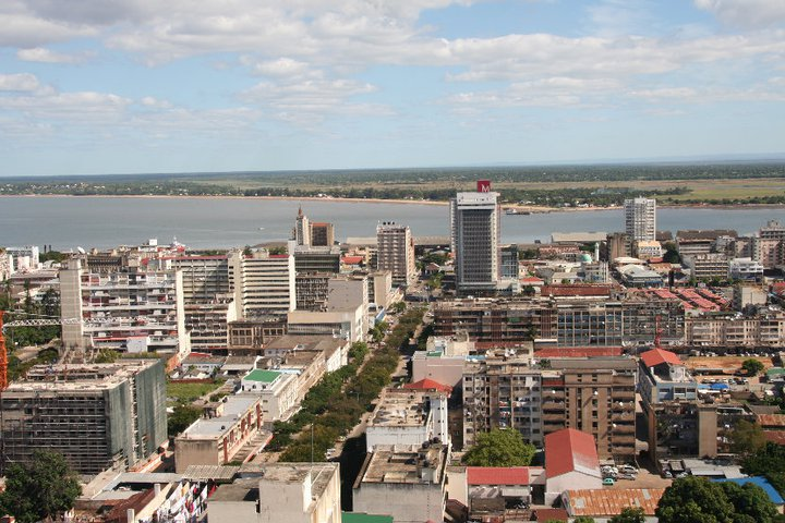 Maputo from the CFM building - Maputo do predio do CFM, photo by Sara Vannini